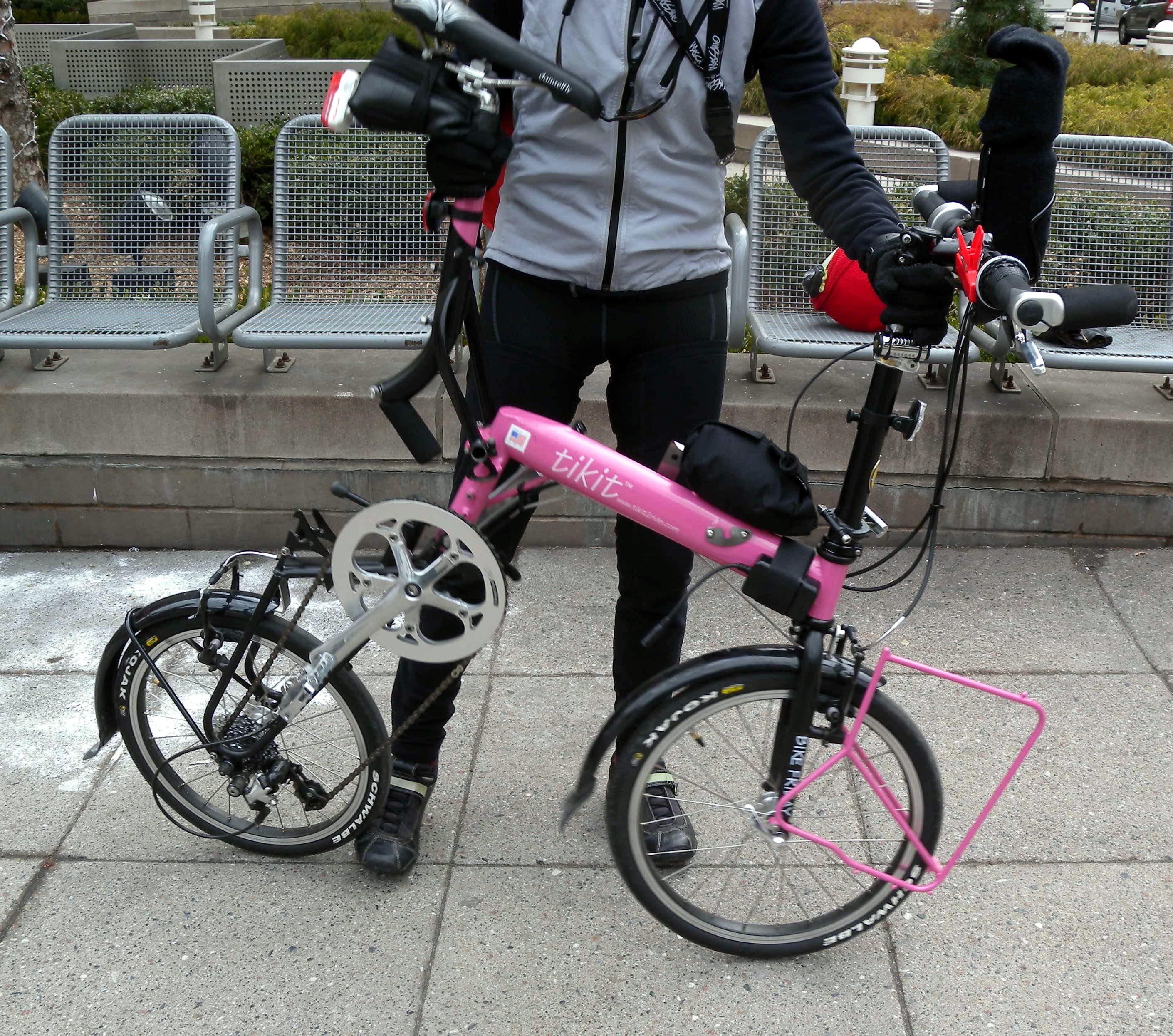 A Tikit almost completely unfolded EXIF Geocode is in error, 30 m southwest of here.